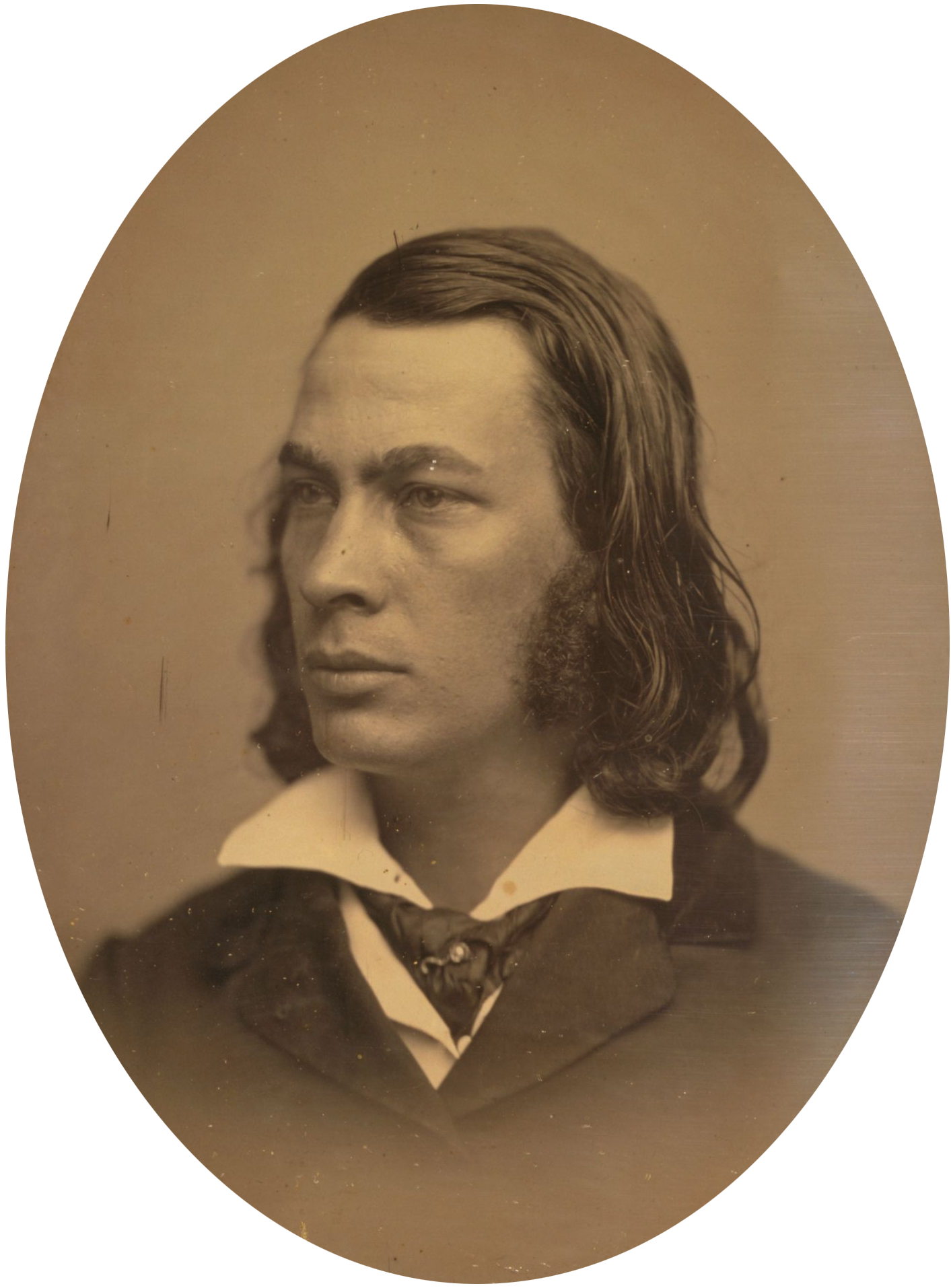 George Lippard daguerreotype, without frame.